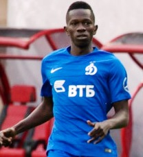 Khaly Thiam with FC Dynamo Moscow in a friendly game against the Russia national team.